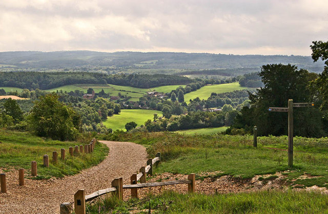 North Downs Way at Newlands Corner. The footpath continues down the hill and into the next grid square at this Surrey Hills 'beauty spot.'